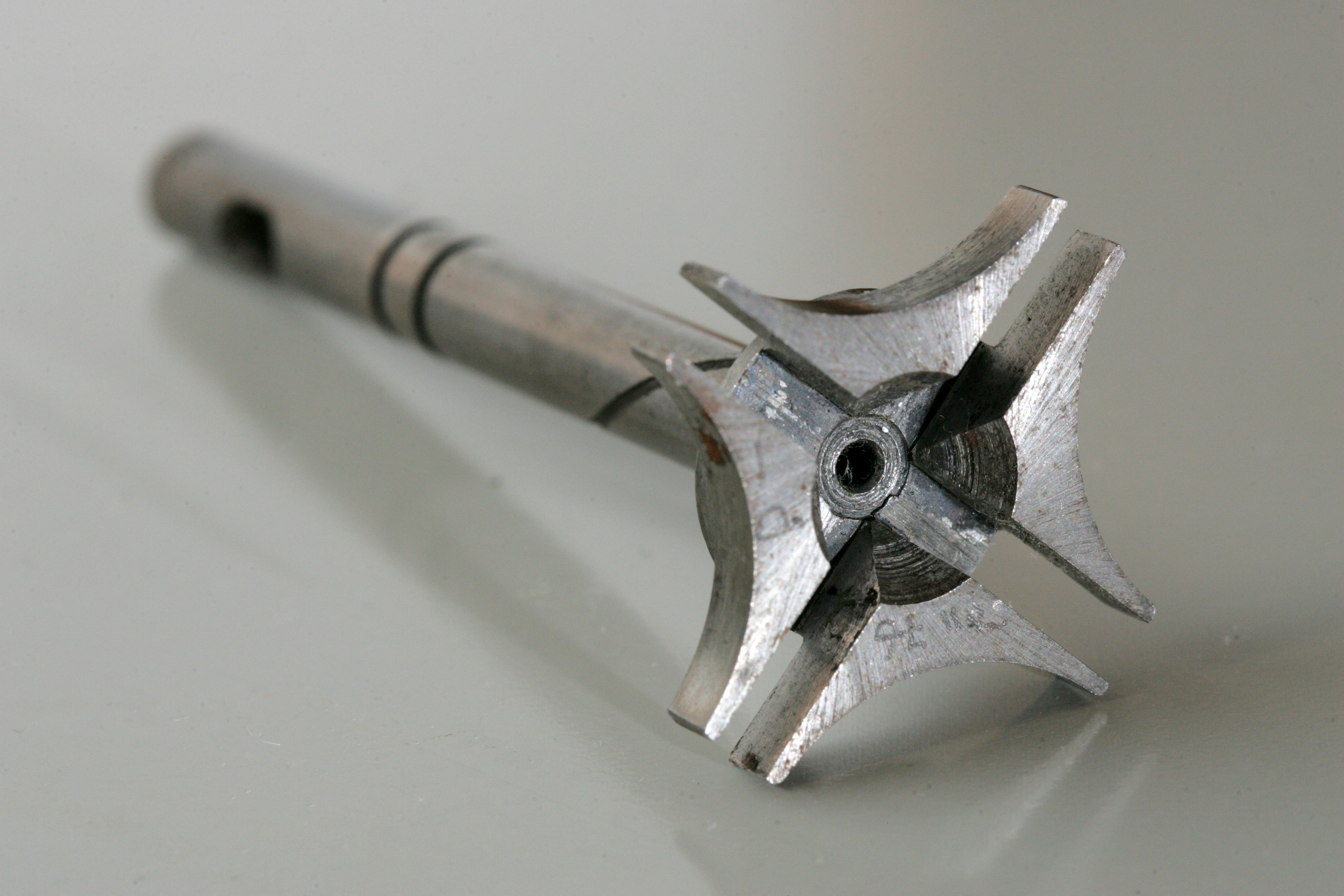 Geneva driven wheel with the roller from soviet movie film projector 23KPK.